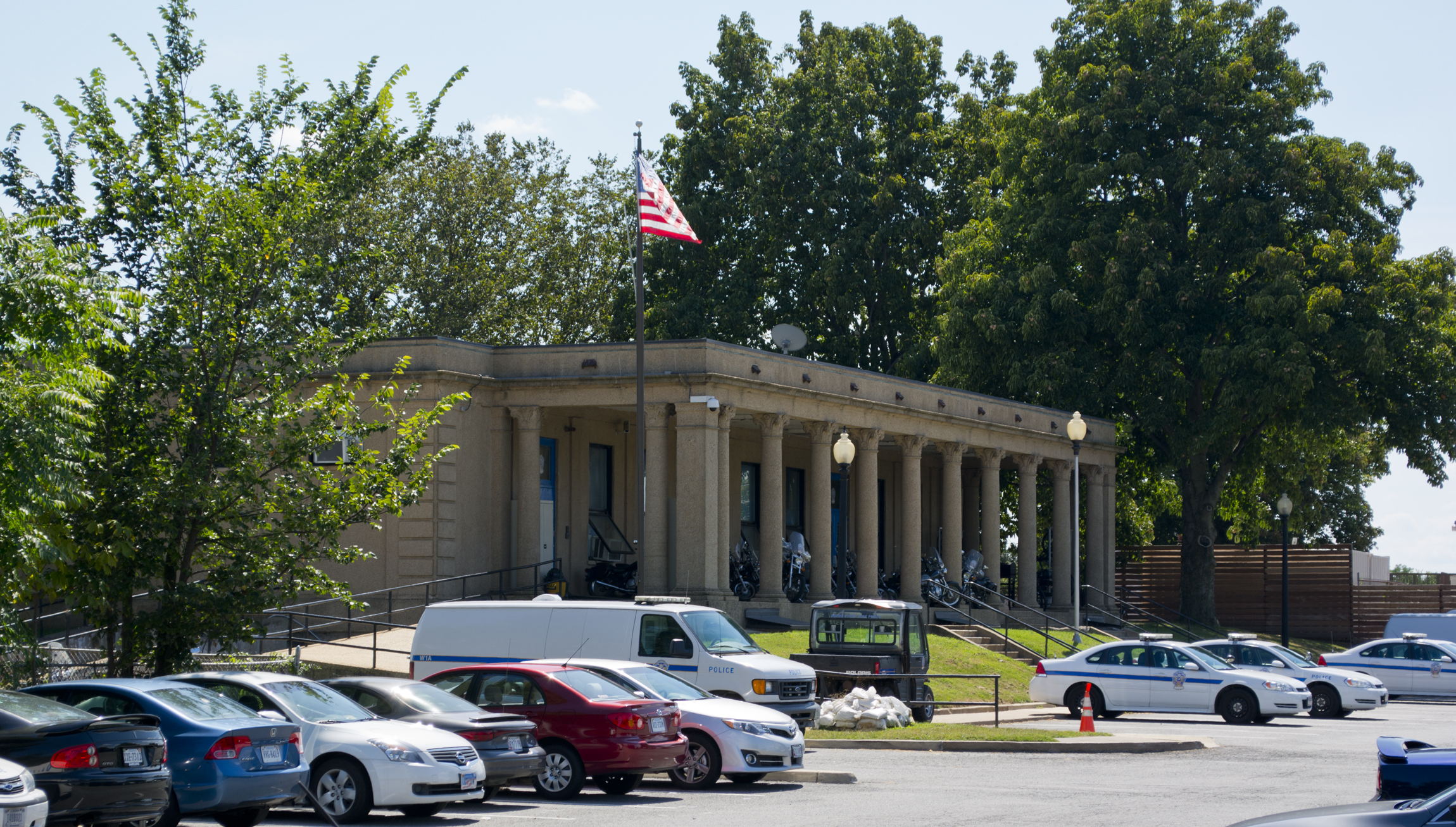 Rear of the US Park Police Central District Station in East Potomac Park in Washington, D.C., in the United States.